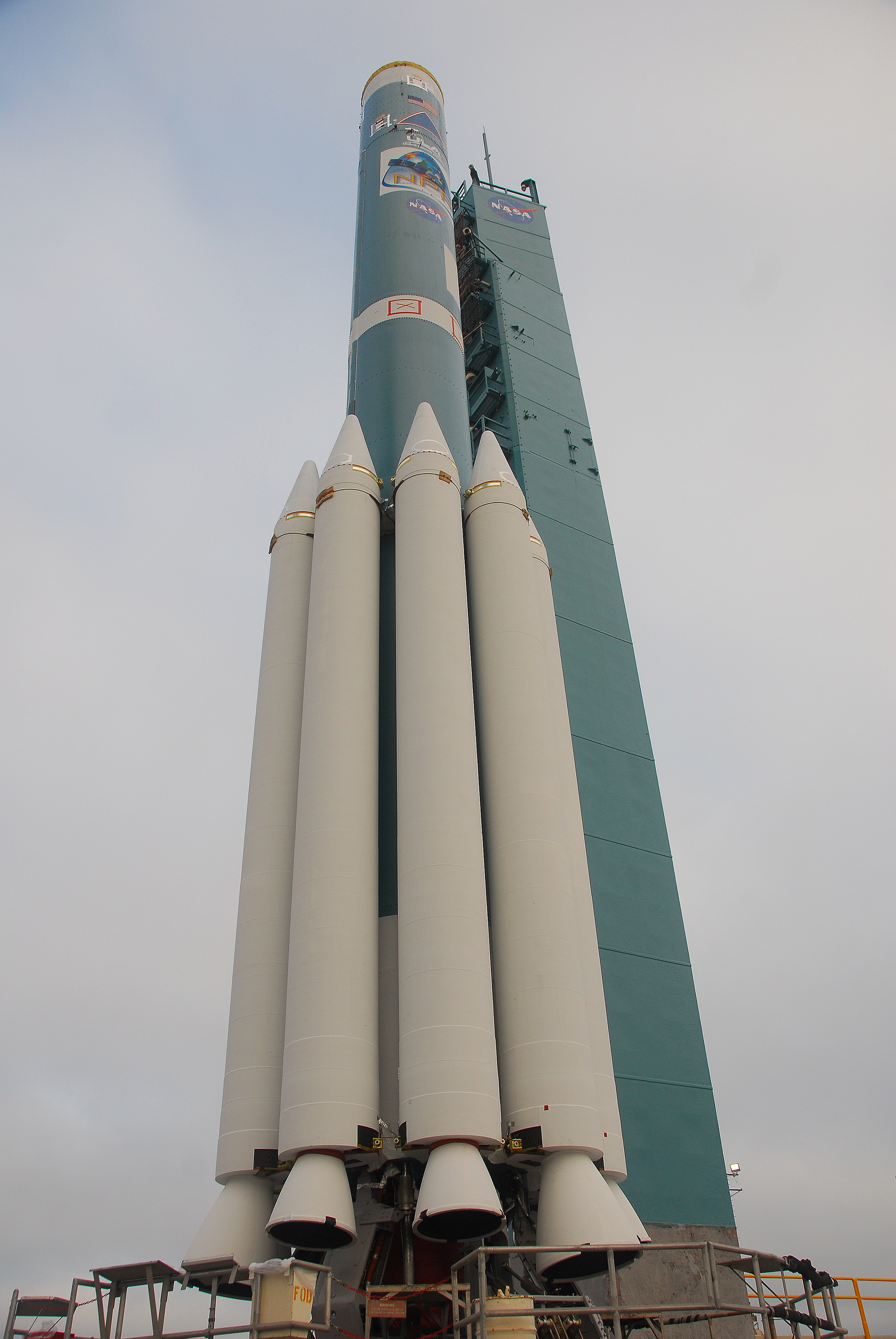 VANDENBERG AIR FORCE BASE, Calif. -- At Vandenberg Air Force Base in California, the third stage of a United Launch Alliance Delta II rocket with several solid rocket motors attached sits on NASA’s Space Launch Complex-2. The Delta II will carry NASA's National Polar-orbiting Operational Environmental Satellite System Preparatory Project (NPP) satellite into space. NPP represents a critical first step in building the next-generation of Earth-observing satellites. NPP will carry the first of the new sensors developed for this satellite fleet, now known as the Joint Polar Satellite System (JPSS) to be launched in 2016. NPP is the bridge between NASA's Earth Observing System (EOS) satellites and the forthcoming series of JPSS satellites. The mission will test key technologies and instruments for the JPSS missions. NPP is targeted to launch Oct. 25. Photo credit: NASA/VAFB For more information about NPP: go to and NASA Goddard Space Flight Center enables NASA’s mission through four scientific endeavors: Earth Science, Heliophysics, Solar System Exploration, and Astrophysics. Goddard plays a leading role in NASA’s accomplishments by contributing compelling scientific knowledge to advance the Agency’s mission. Follow us on Twitter Like us on Facebook Find us on Instagram